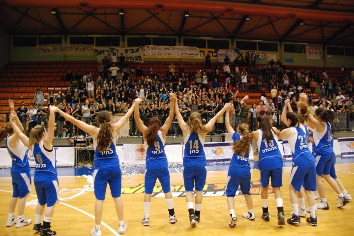 emekizrael